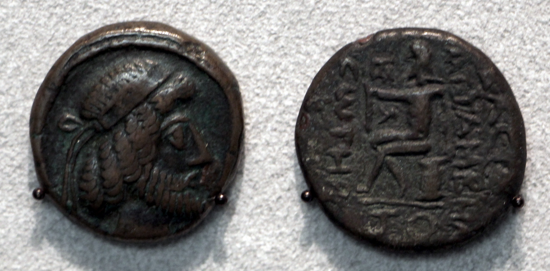 Ancient Greek coins in the Altes Museum Berlin